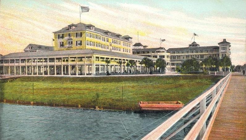 Ormond Hotel (or Hotel Ormond), Ormond Beach, FL; from a circa 1905 postcard. The first Ormond bridge can be seen to the right side.